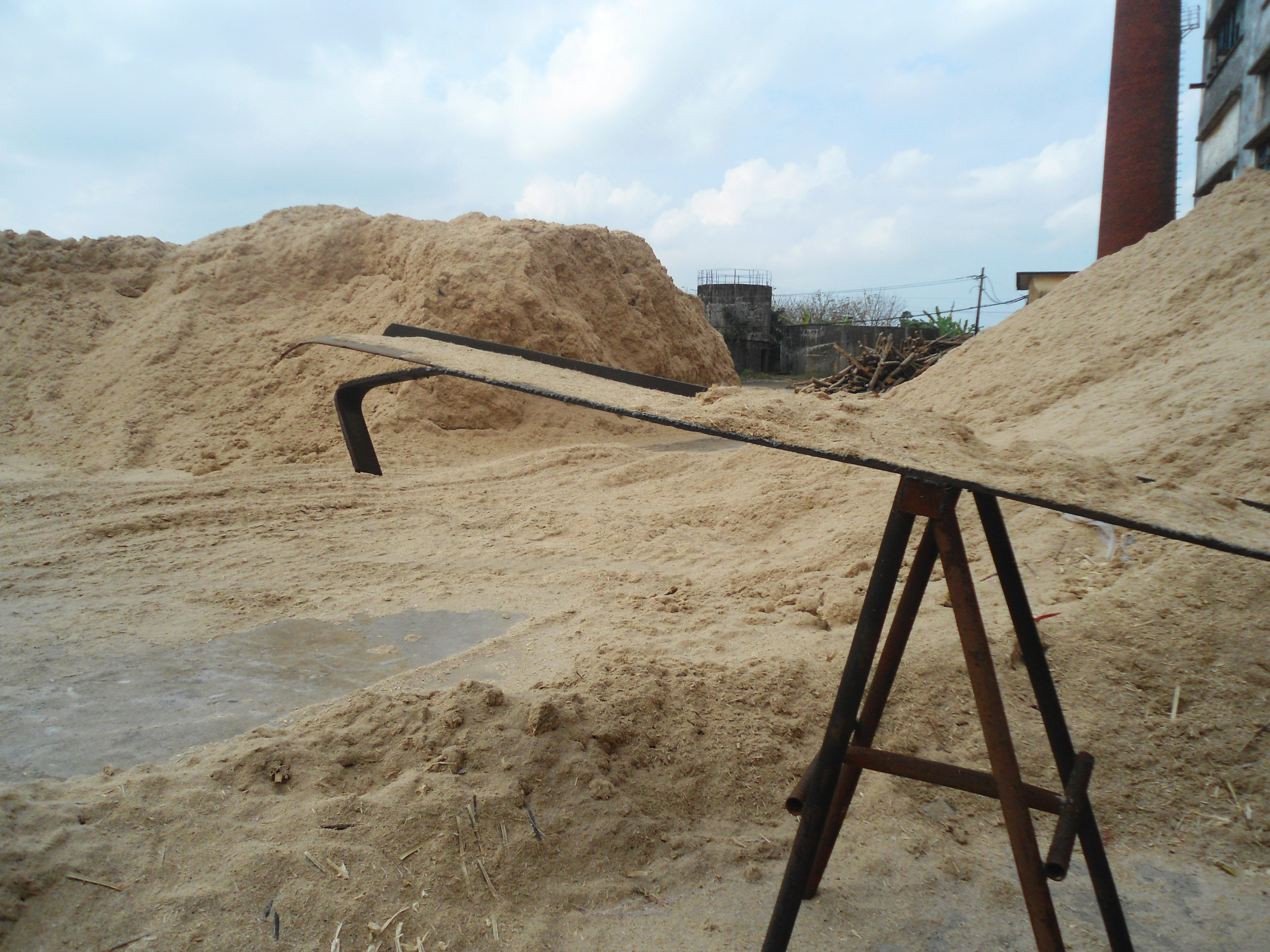 Bagasse at a sugarcane factory in Hainan, China.